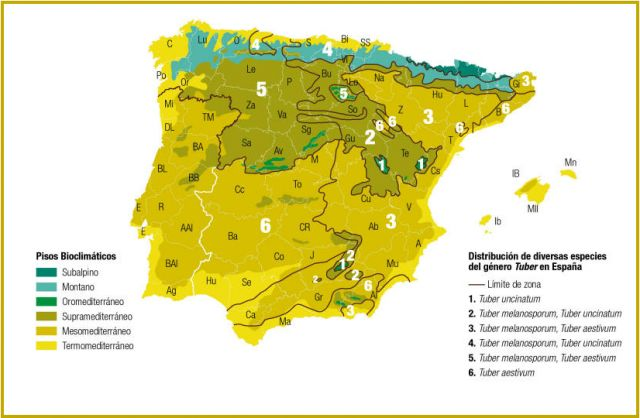 Range of Tuber spp. in the Iberian peninsula.